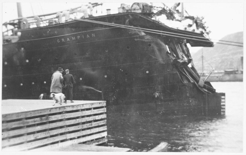 The steamship GRAMPIAN of the Canadian Pacific line, damaged in a collision with an iceberg while en route from Montreal to Liverpool. The radio brought the CORSCIAN and other ships, but the ship was able to proceed unassisted. Photographed 16 July 1919